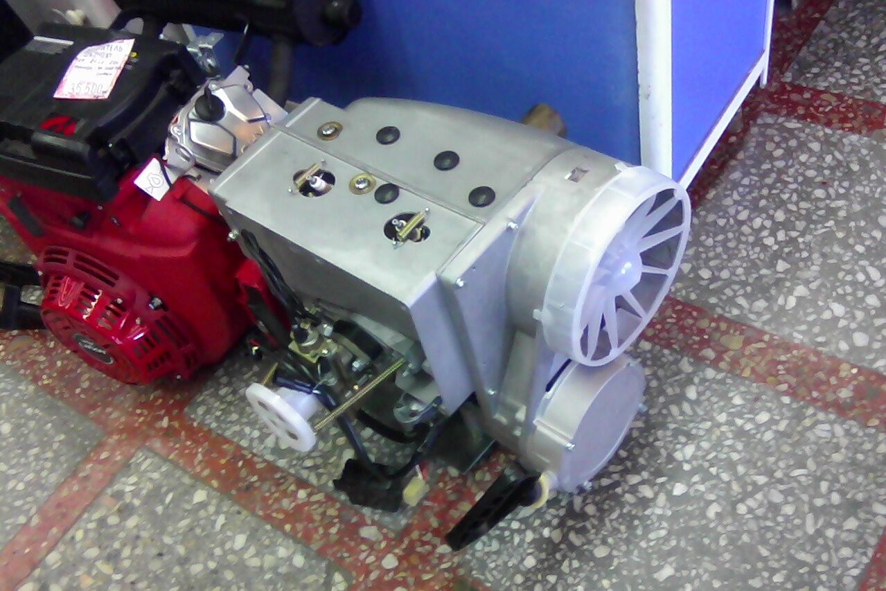 Snowmobiles